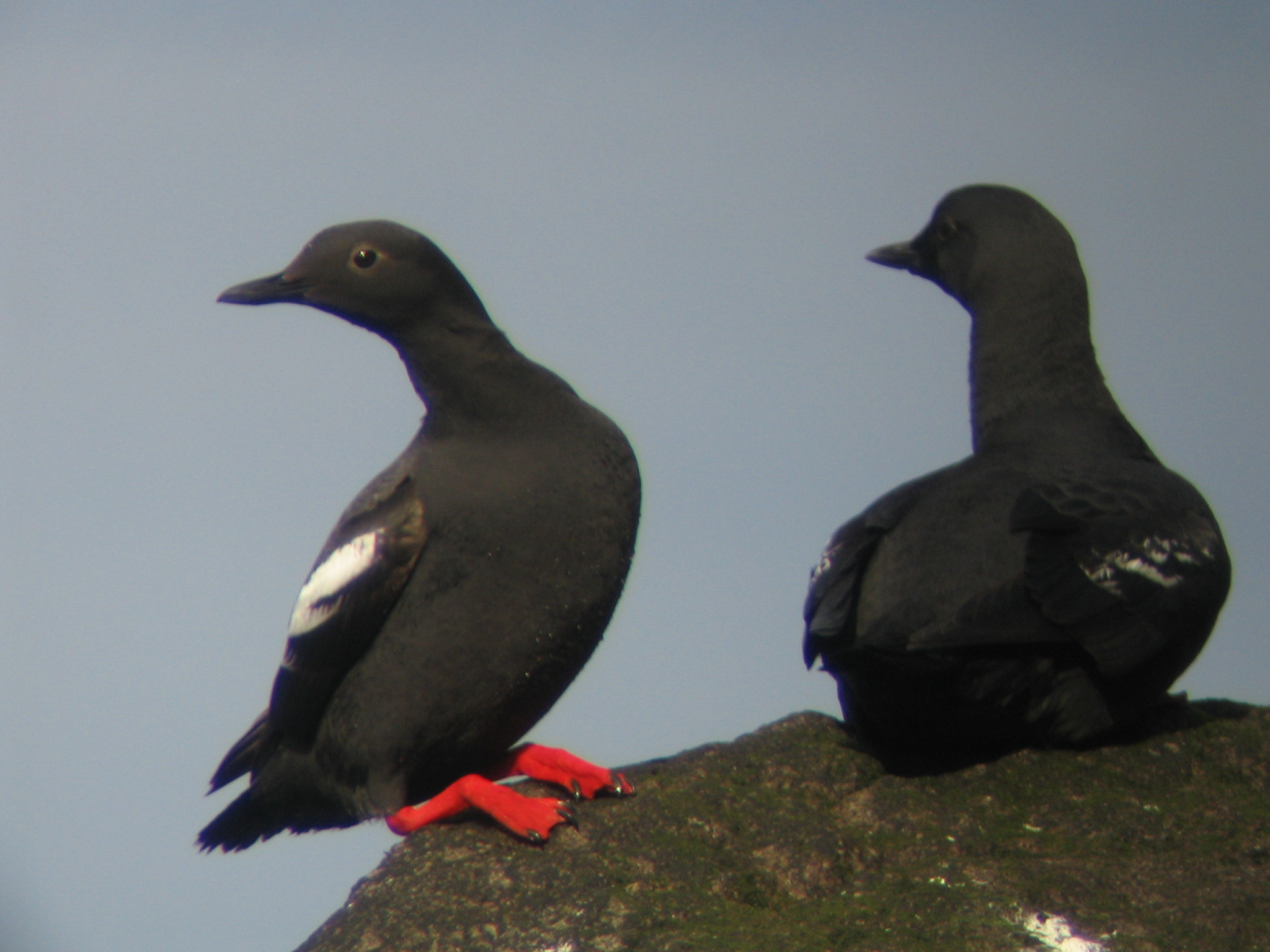 Pigeon guillemots (Cepphus columba) on Kuril Islands in Russia.